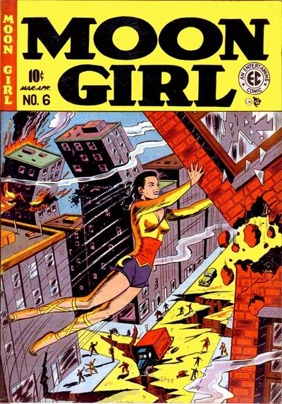 Cover from Moon Girl #6, (March-April1949)